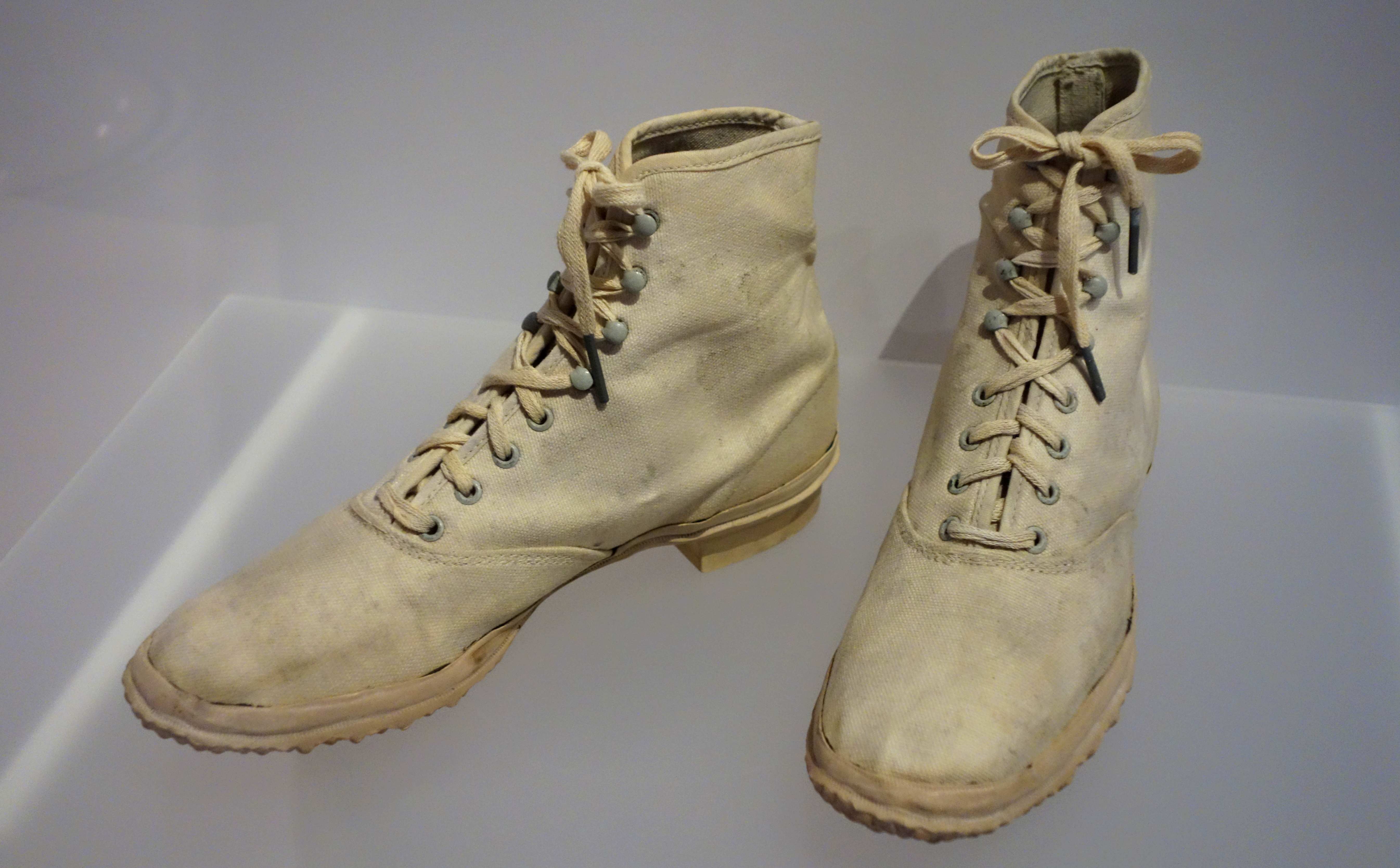 Exhibit in the Bata Shoe Museum, Toronto, Ontario, Canada. This item is old enough so that its design is in the public domain. The museum permitted photography without restriction.